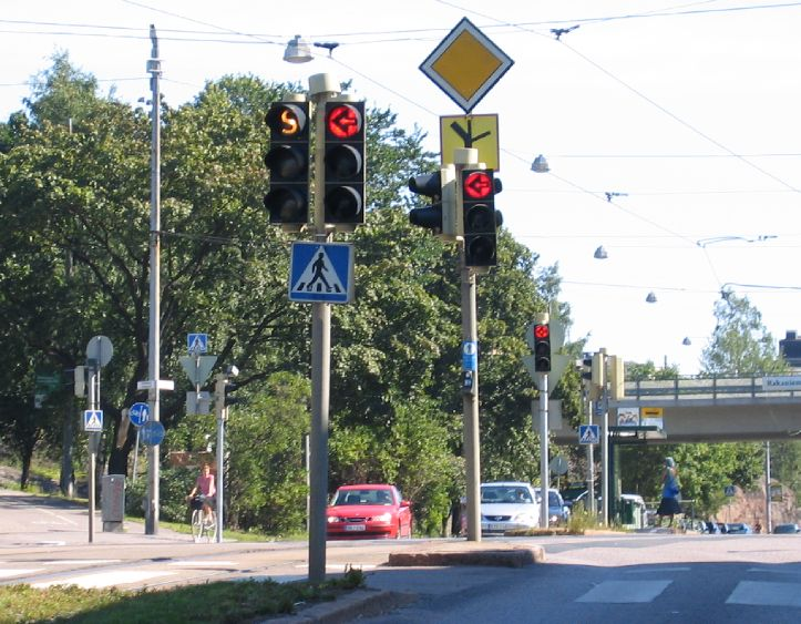 Road intersection with traffic lights in Kallio, Helsinki, Finland, 8 August 2007. Traffic signals for cars and tram line.